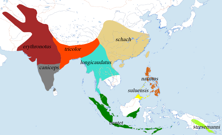 Long-Tailed Skrike: Approximate Distribution of Subspecies